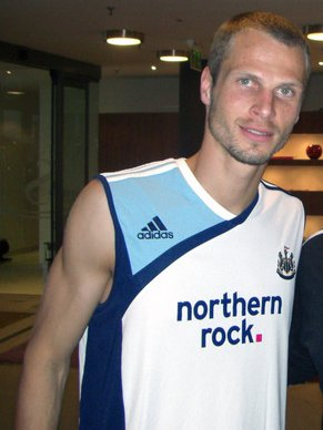 Cut version of "David Rozehnal at the hotel"